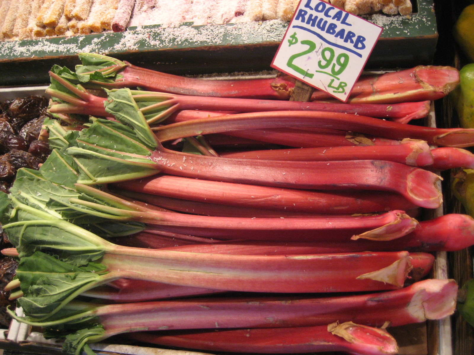 Rheum rhabarbarum - Rhubarb, Pike Place Market, Seattle, Washington